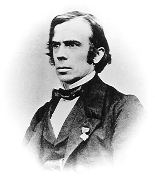 Louis Appia (1818–1898), Swiss physician from Geneva and co-founder of the International Committee of the Red Cross